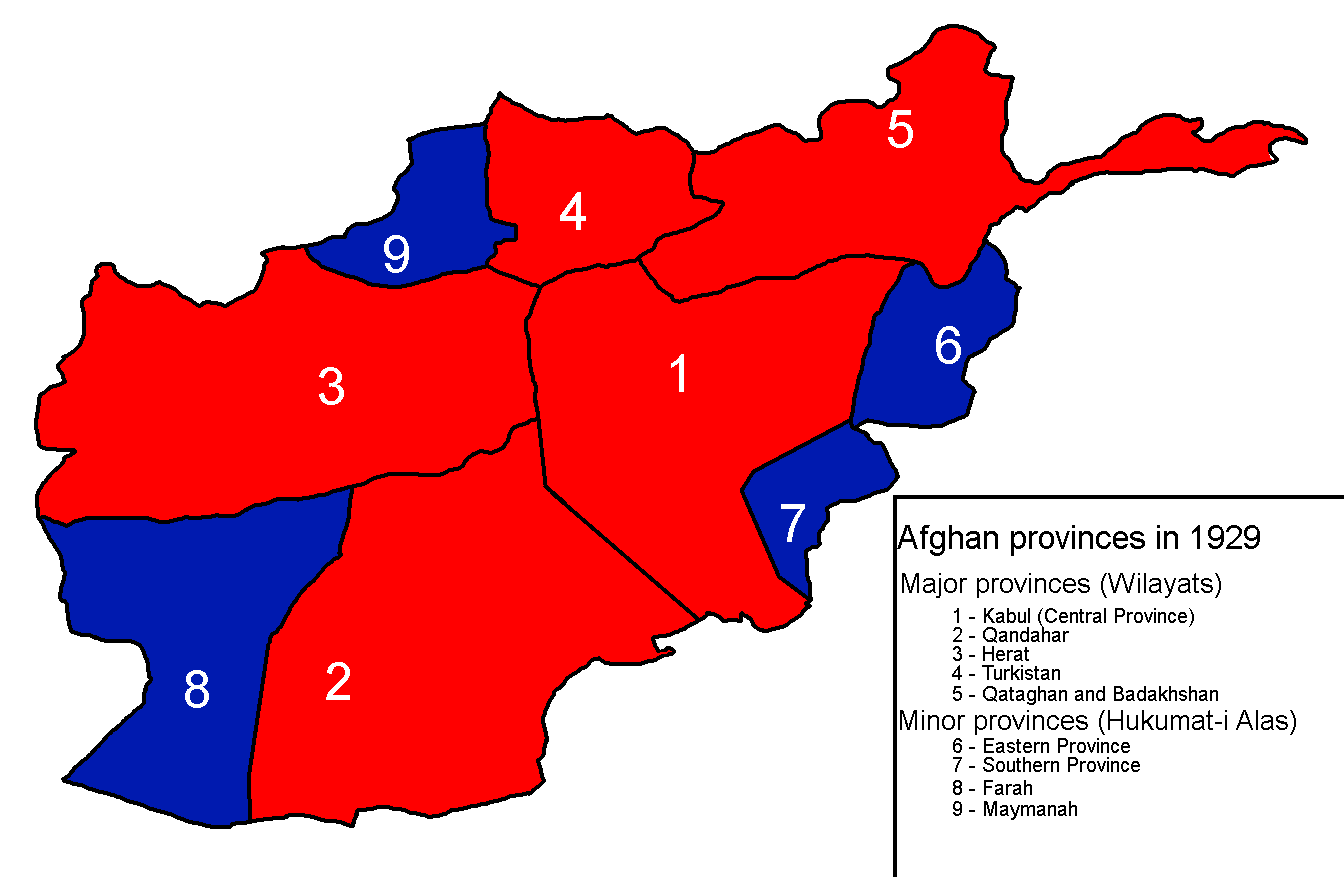 This map illustrates the Provinces of Afghanistan in 1929.